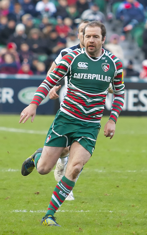 Leicester Tigers' Geordan Murphy. Leicester Tigers vs Bath, Aviva Premiership, Welford Road, Saturday 1st December 2012